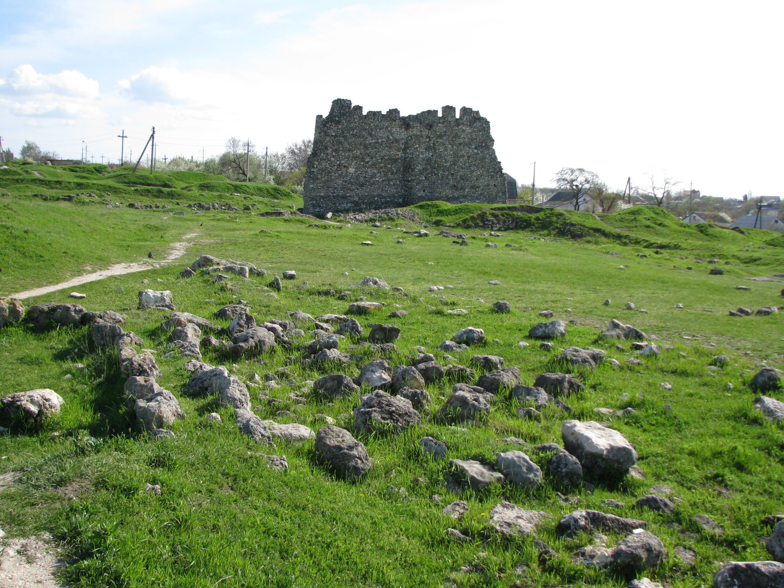 Ancient city Scytian Neapolis in Crimea (Simferopol)